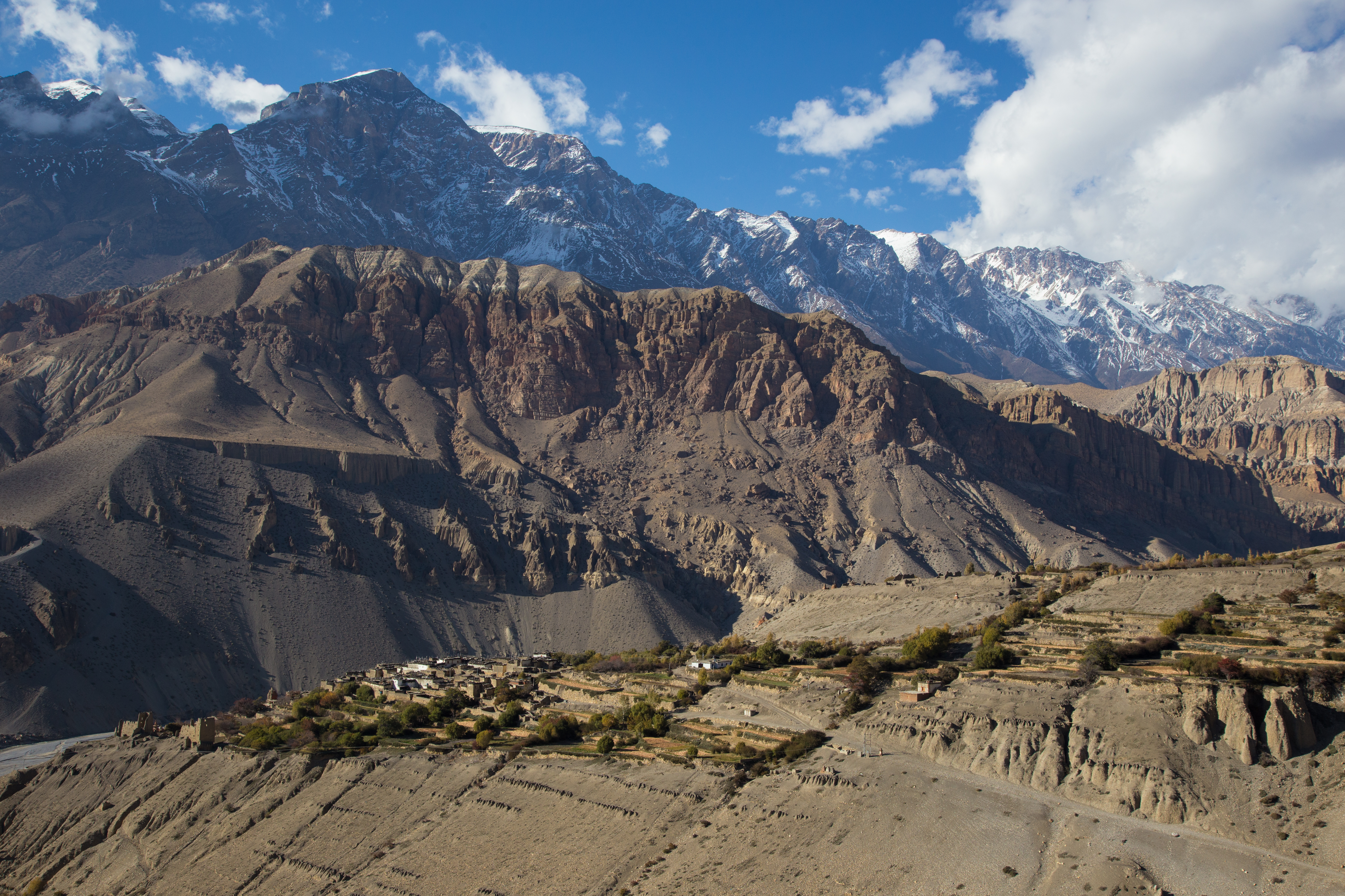 Tangbe (3040 m) is a typical Mustang village with narrow alleys, whitewashed walls, chortens and prayer flags. It is located on a promontory with a good view over the main valley. The ruins of an ancient fortress have become a silent witness of history, when Tangbe was on a major trade route, especially for salt, between Tibet and India.